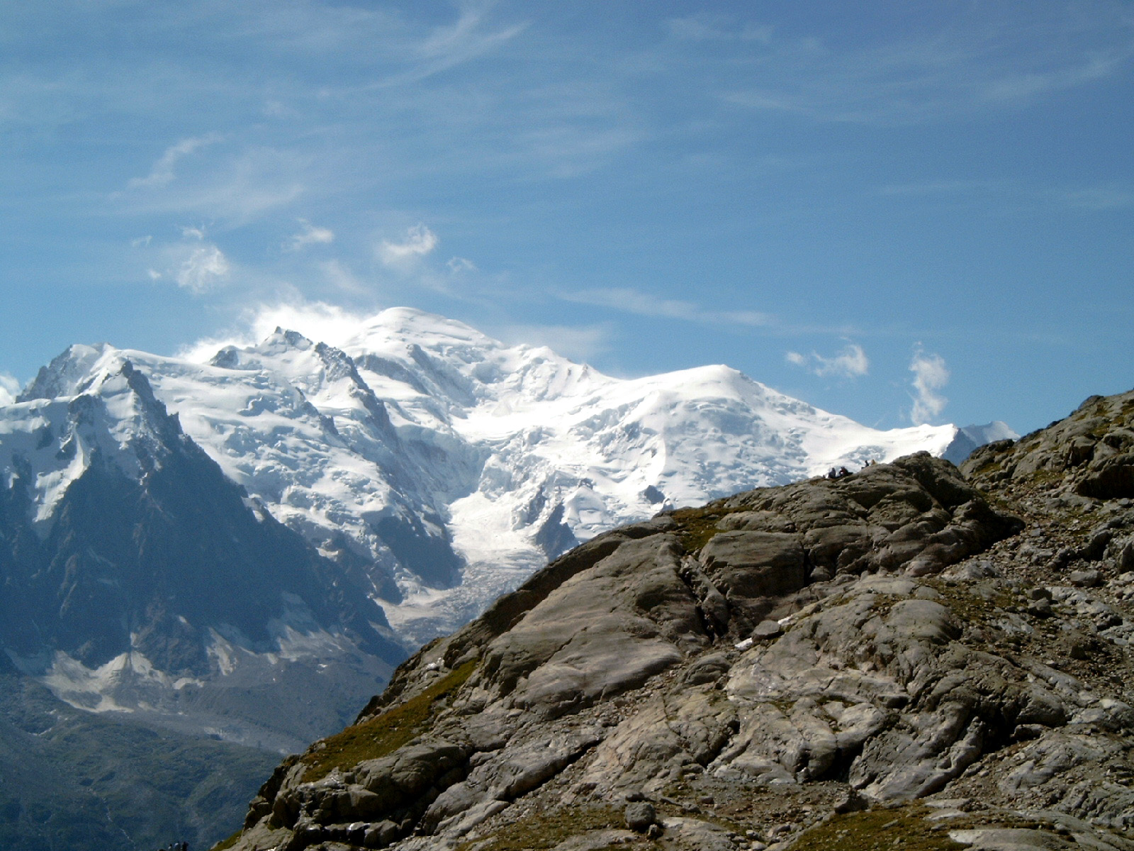 Mont Blanc and Dôme du Goûter seen from the north.